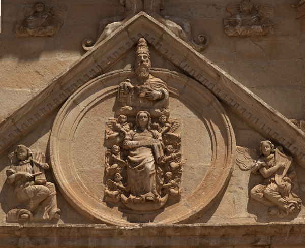 Ref: PM_100296_E_Manzanares.jpg; Manzanares; Templo de la Asunción; Castilla-la Mancha, Ciudad Real; Spain; Pórtico meridional; Cultural heritage; Europe/Spain/Manzanares; photo: Paul M.R.Maeyaert; © Paul M.R. Maeyaert